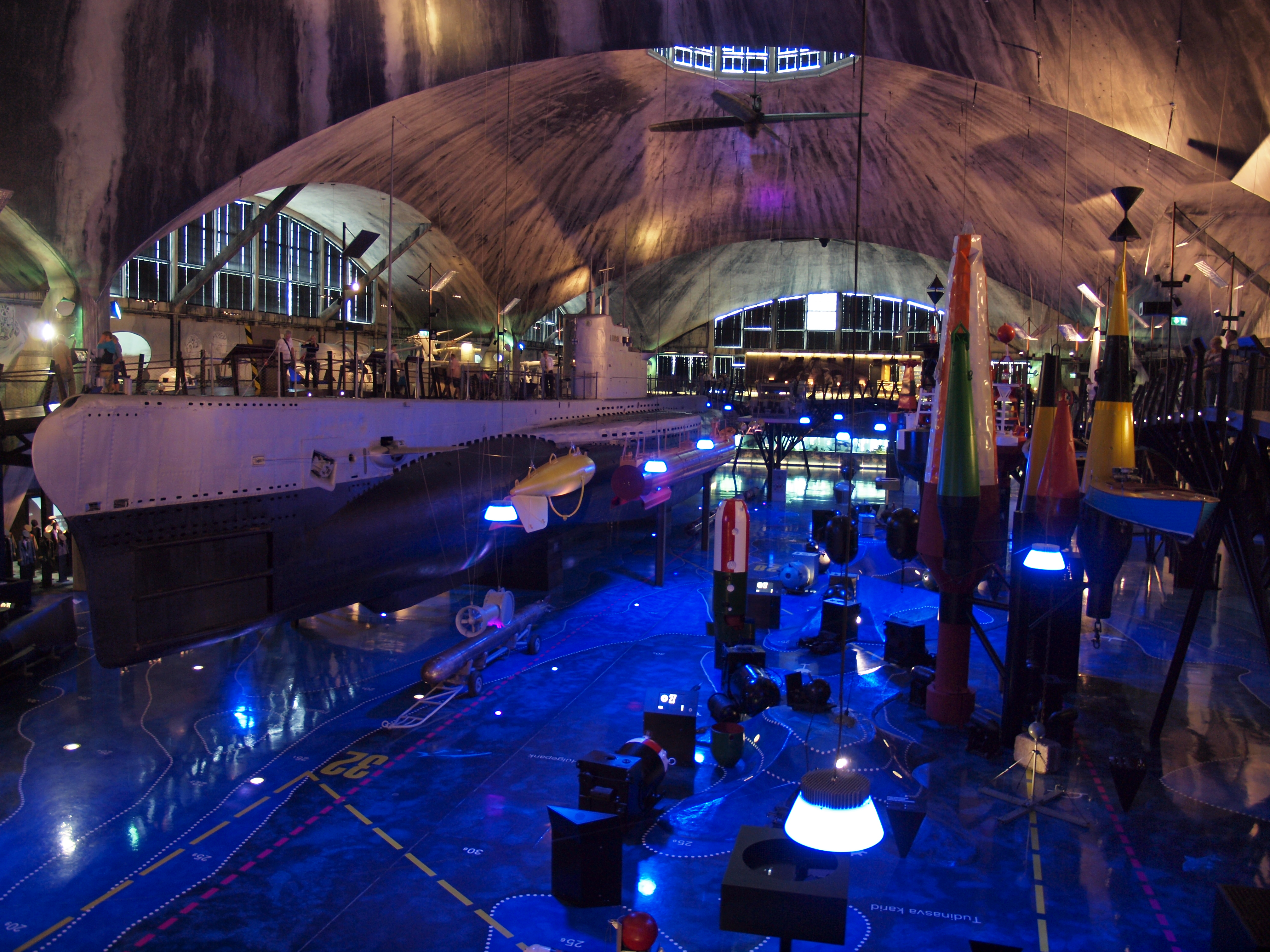 Inside view of the seafaring museum in Tallinn, Estonia. To the left is a real military submarine, which is now hosted in the museum, and open for museum guests to enter.